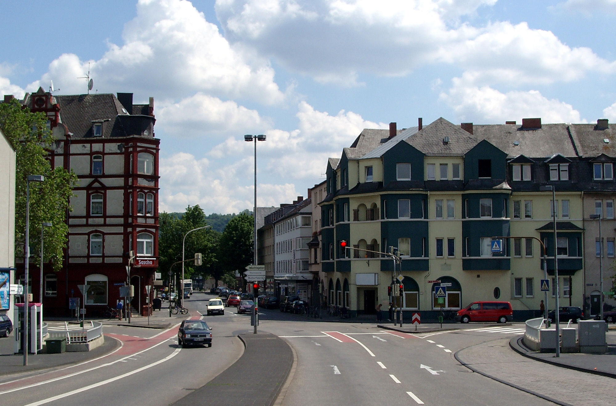 Koblenz-Lützel